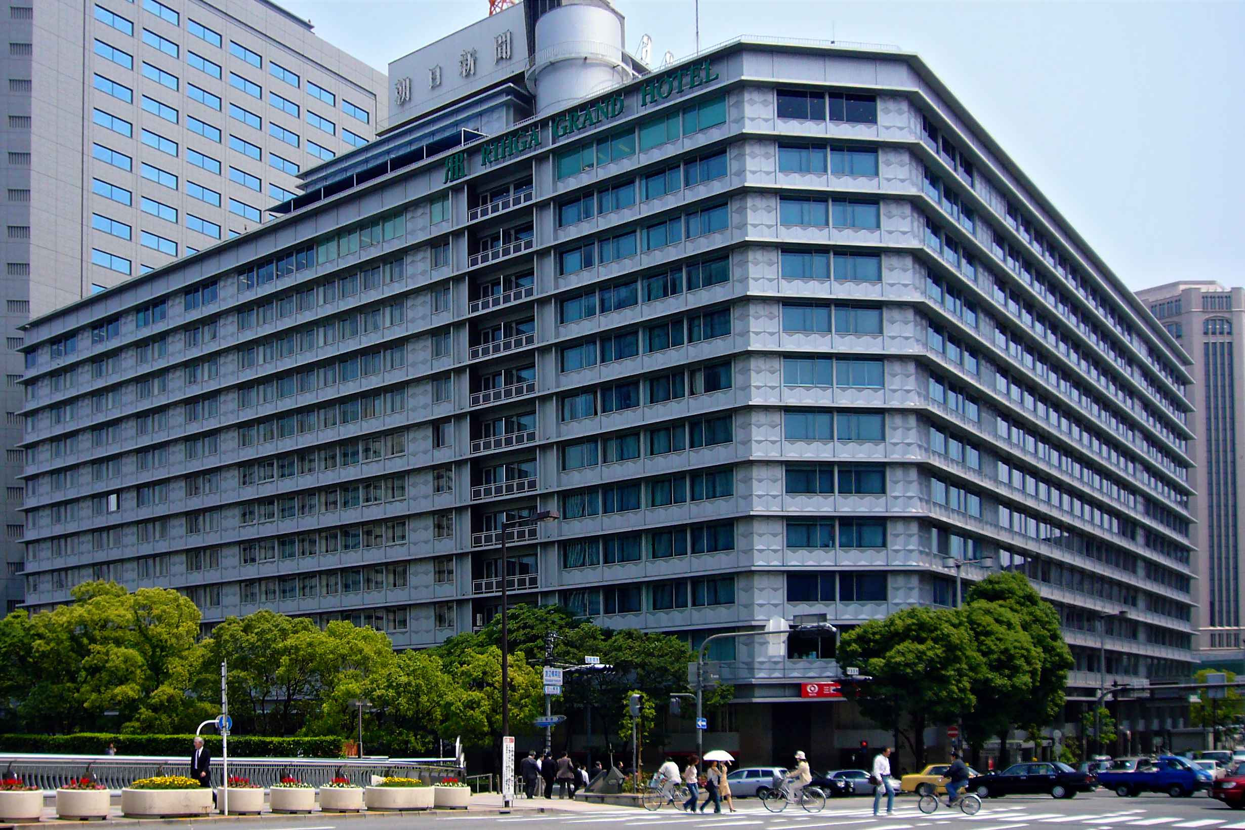 Shin-Asahi Building in Osaka, Osaka prefecture, Japan